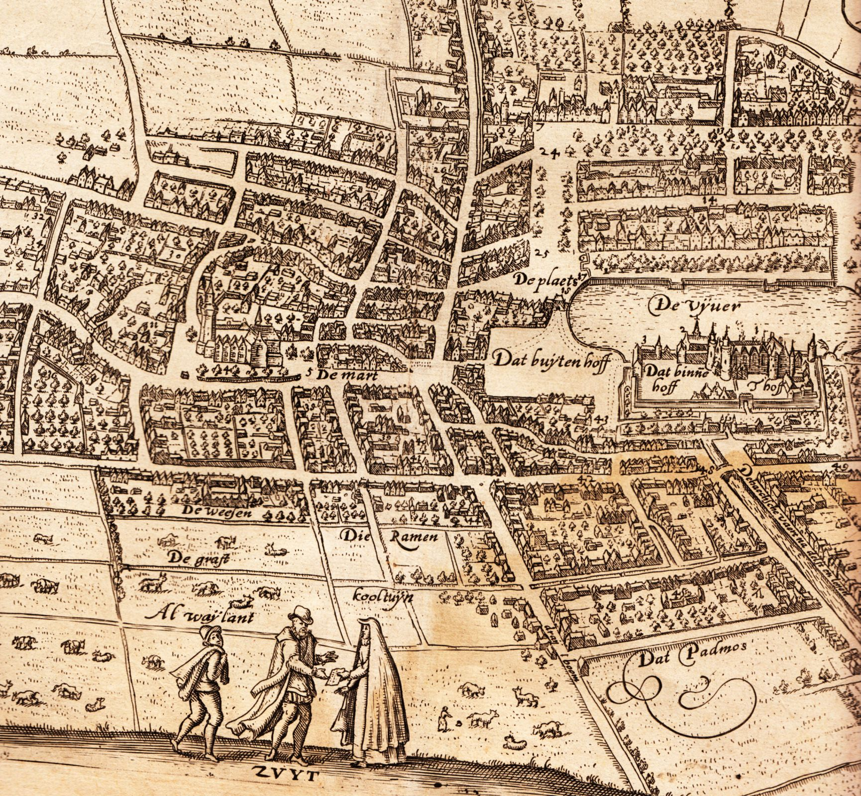 Bird's eye view of The Hague around 1580 published about 1600. At the left is the gothic Grote of St. Jacobskerk, at the right the Binnenhof, both still landmarks of Den Haag.